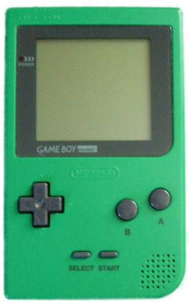 Game Boy Pocket